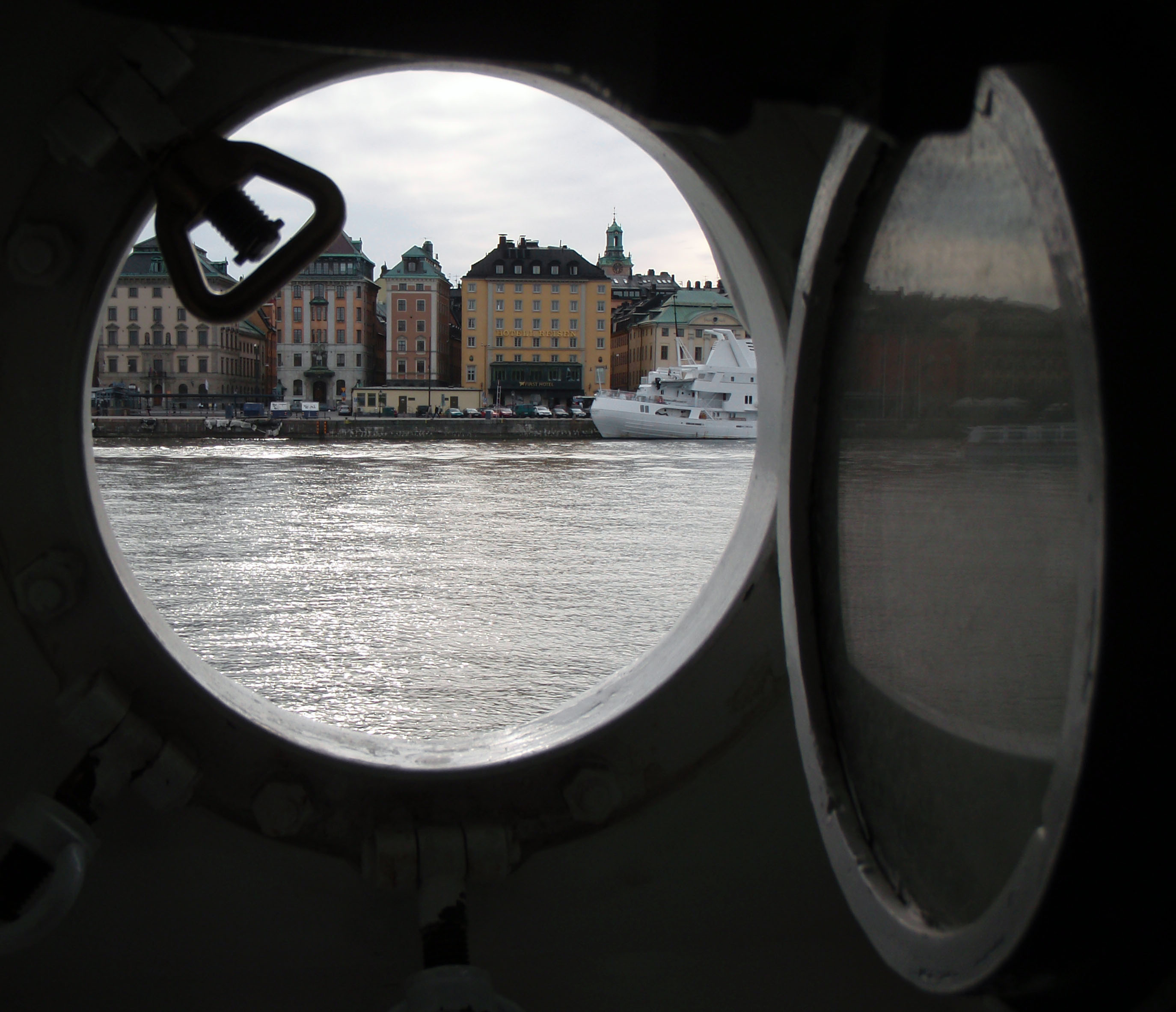 Stockholm seen from window of af Chapman.